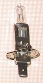 H1-bulb 12 V, 55 W